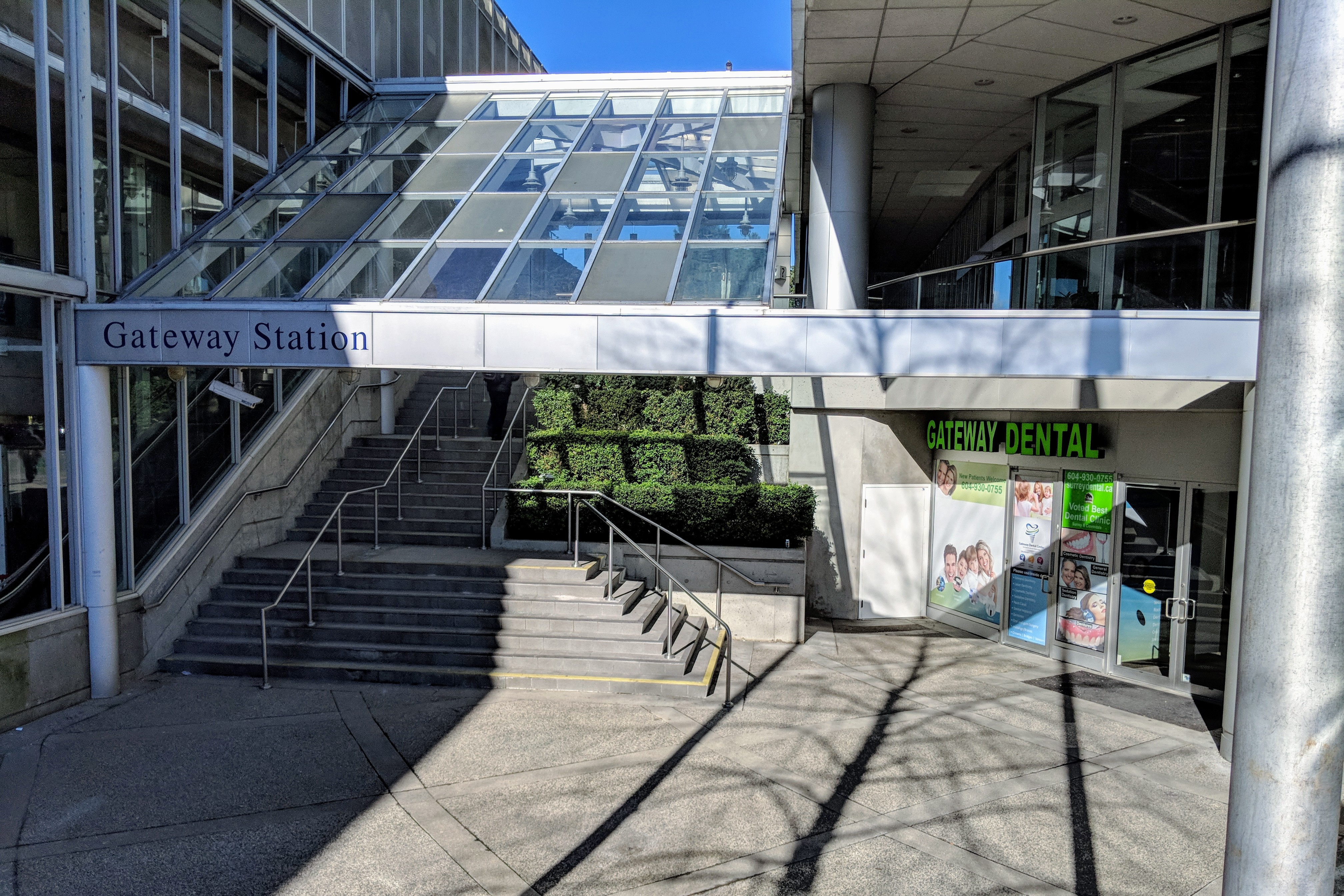 Gateway Station complex links to Expo Line station. Entrance to the train station is at the top of the stairway on the left side.